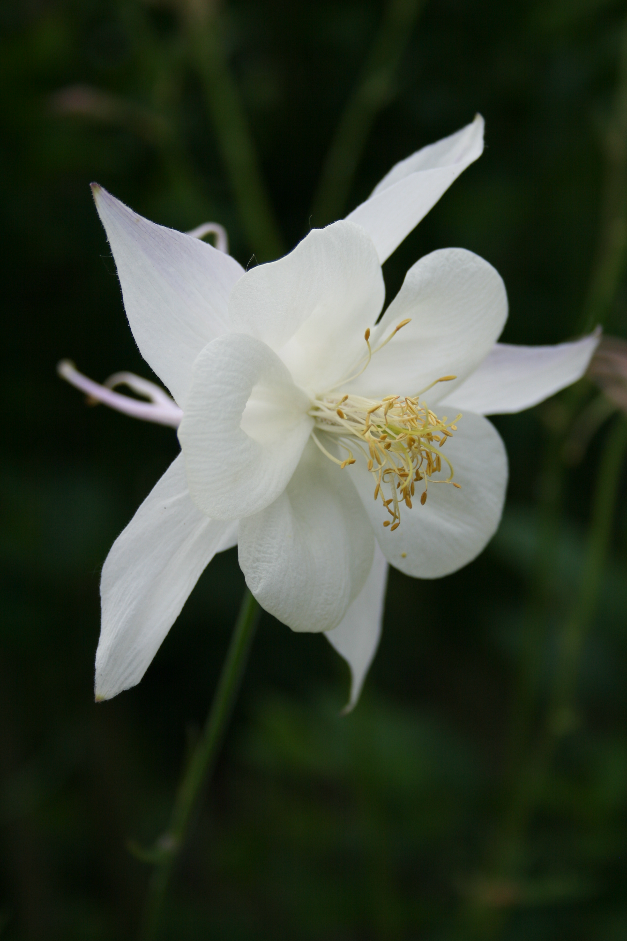 Aquilegia × cultorum 'Kristall'